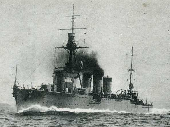 Yura is the fourth warship of Light Cruiser Nagara-class of the Imperial Japanese Navy.